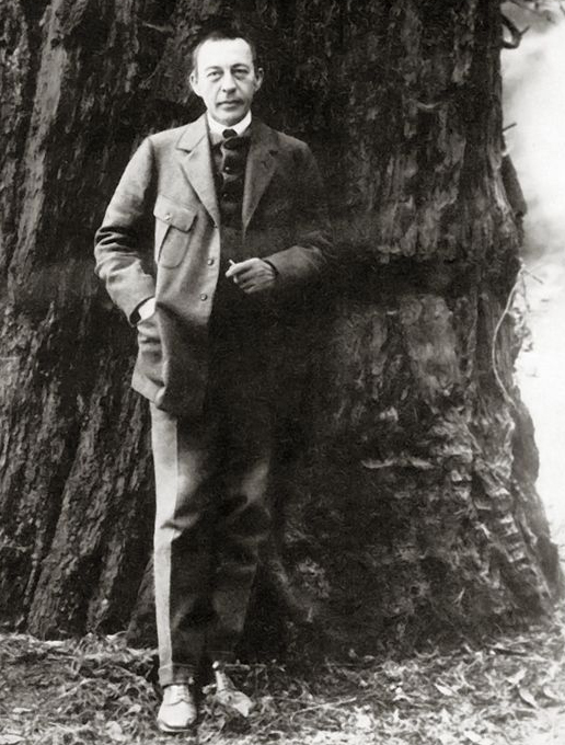 Sergei Rachmaninoff, in 1919, aged 46. Pictured in California, USA, near San Fransisco